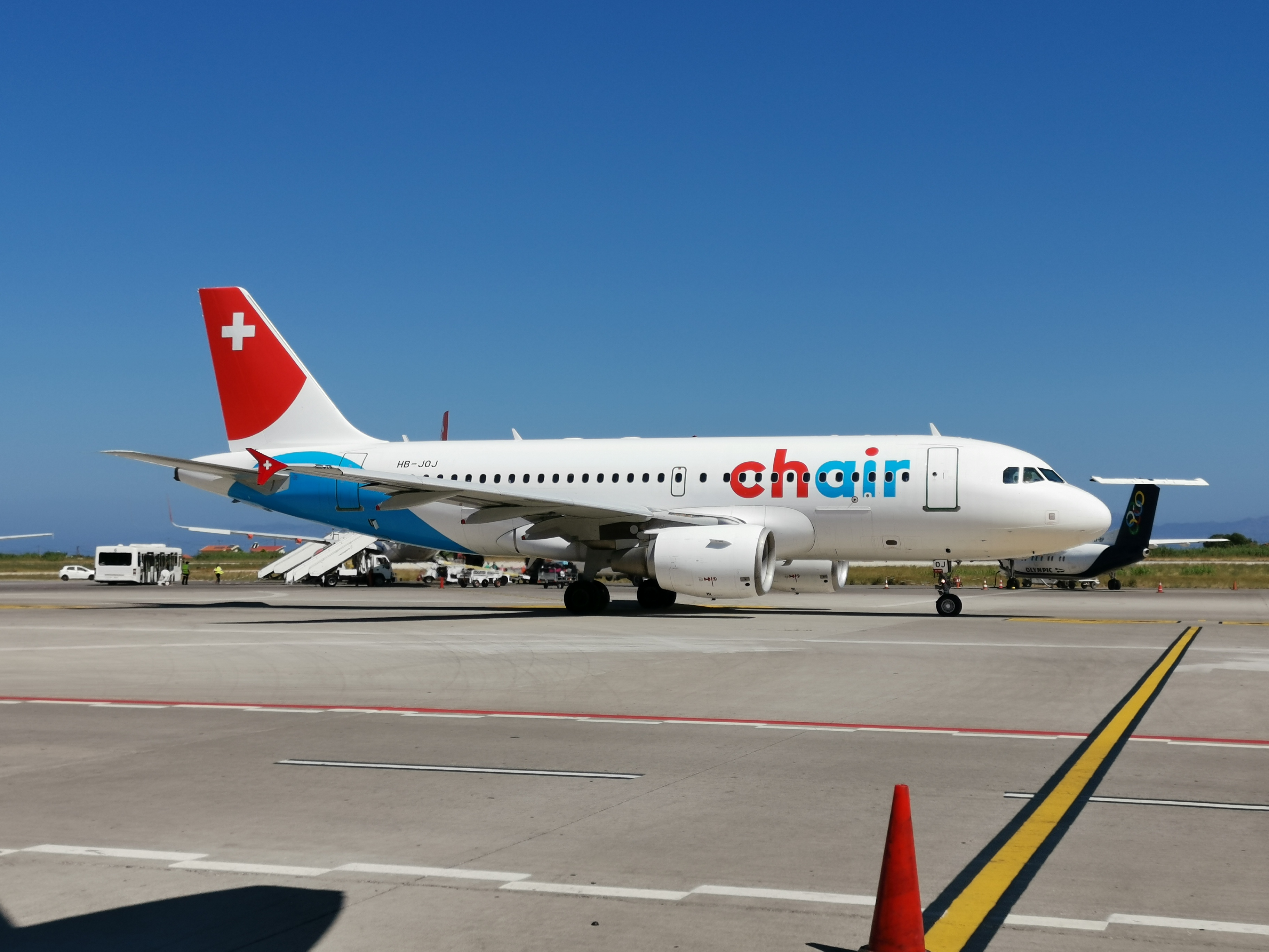 Chair Airlines Airplane